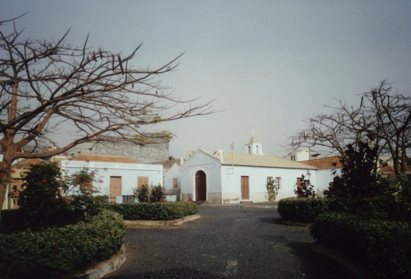 São Filipe, chapel at Praça Alberto da Silva, island of Fogo, Cabo Verde.